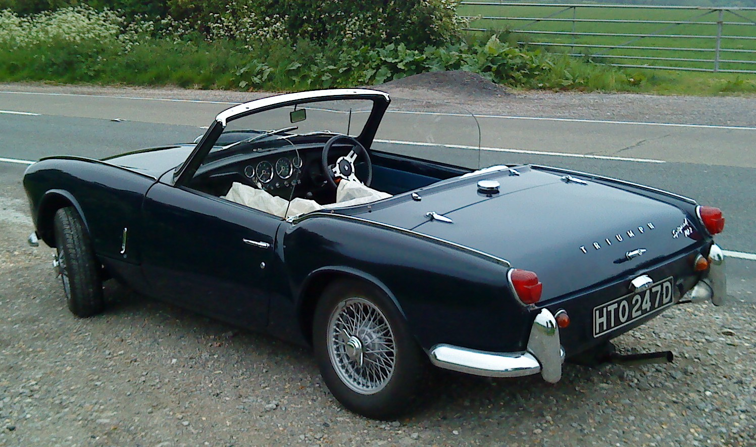 Triumph Spitfire Mk2 Royal Blue